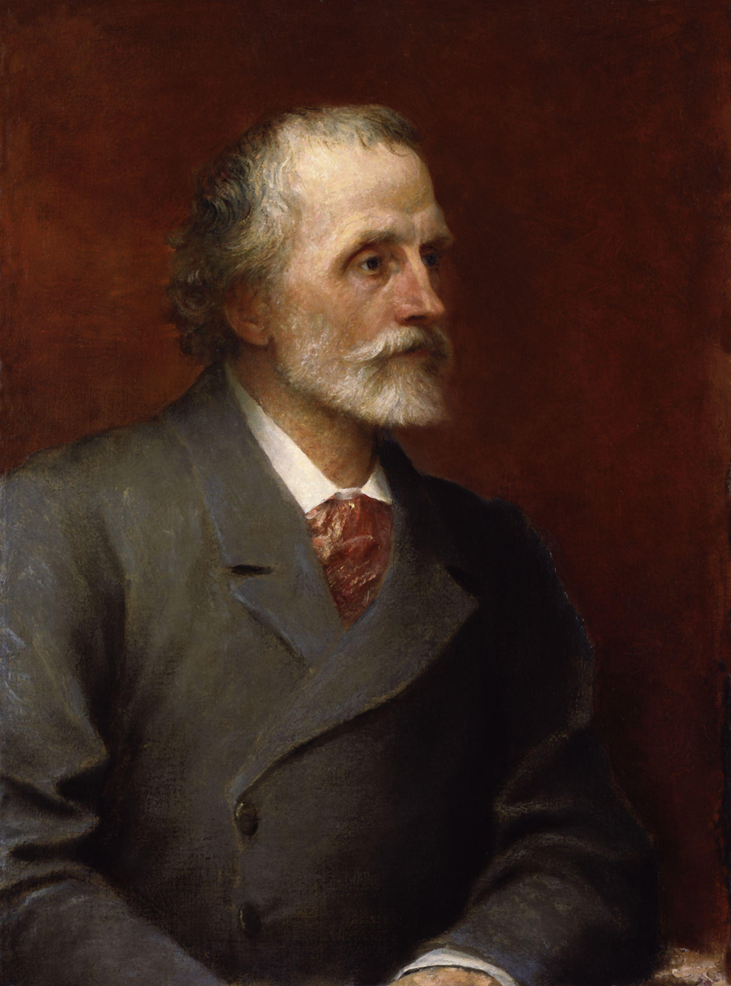 George Meredith, by George Frederic Watts (died 1904), given to the National Portrait Gallery, London in 1909. All images in this batch have been confirmed as author died before 1939 according to the official death date listed by the NPG.